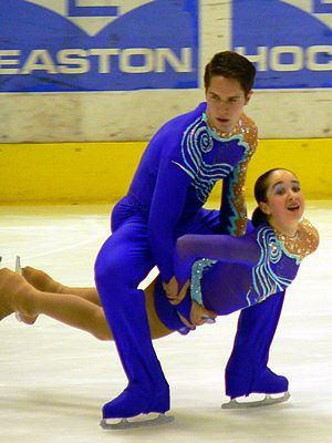 Julia Vlassov and Drew Meekins during their long program at the 2005 Junior Grand Prix event in Croatia